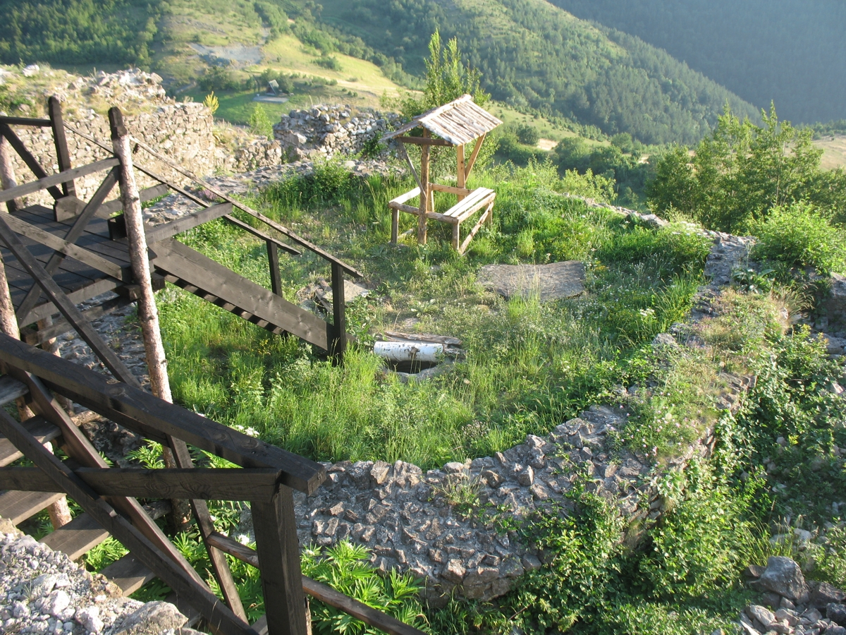 Old cisterns for water gathering with 4 wells in Koznik fortress above Rasina river on Kopaonik slopes,near Brus, Serbia.